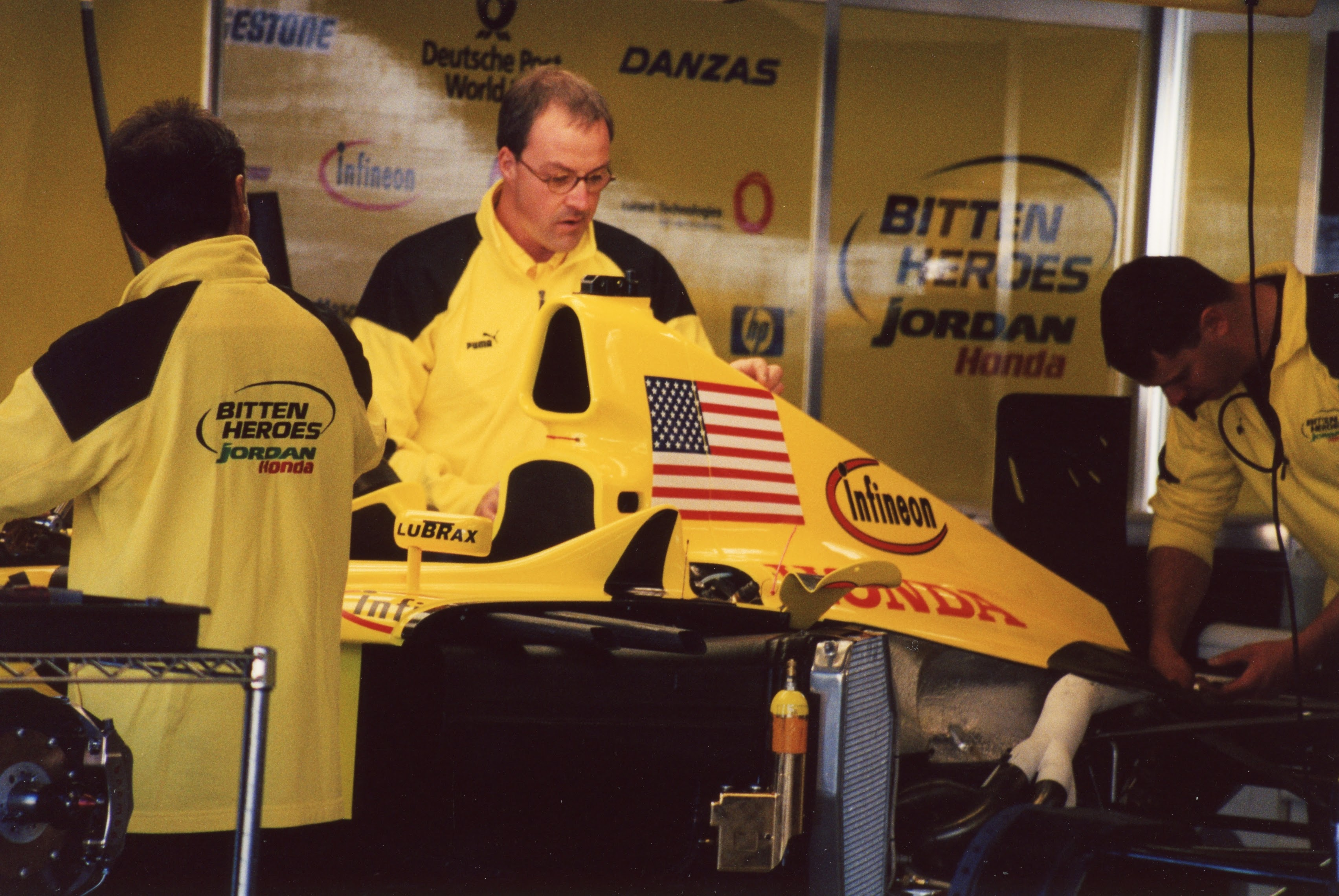 The Jordan Grand Prix team honors the United States during the 2001 United States Grand Prix weekend, less than three weeks after the September 11, 2001 attacks, by displaying an American flag on their cars.